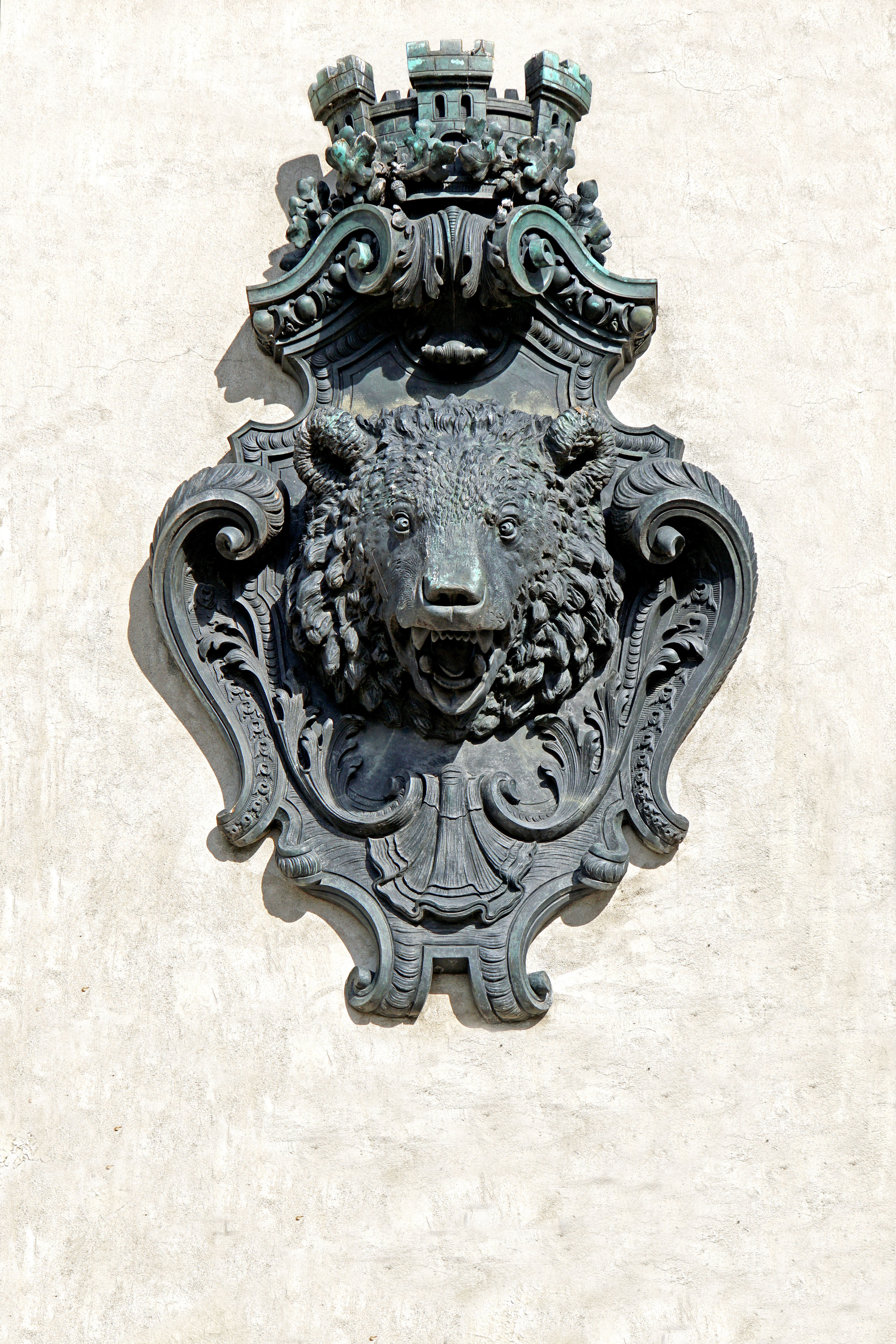 PLEASE, NO invitations or self promotions, THEY WILL BE DELETED. My photos are FREE to use, just give me credit and it would be nice if you let me know, thanks. Bear on the bridge I crossed. The coat of arms of Berlin is used by the German city state as well as the city itself. Introduced in 1954 for West Berlin, it shows a black bear on a white shield.